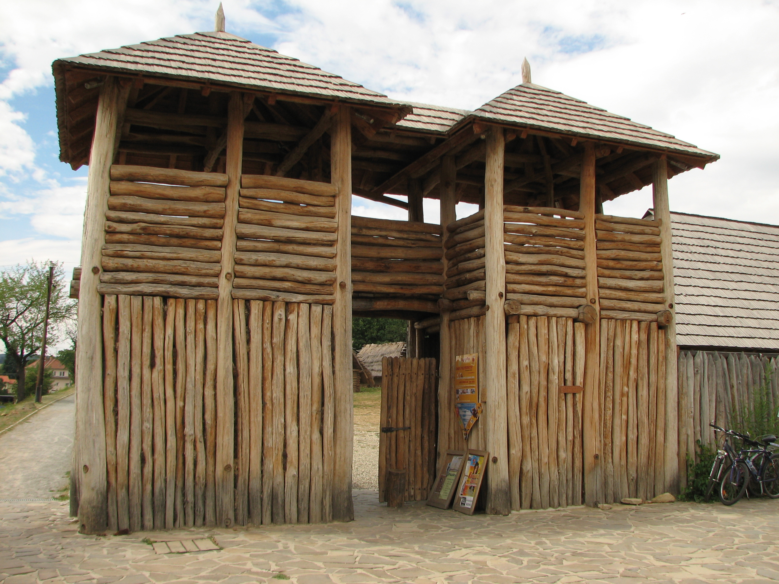 Archaeological Outdoor Museum in Modrá, Czech Republic - entrance